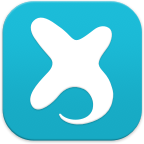 App Launcher icon of XONE